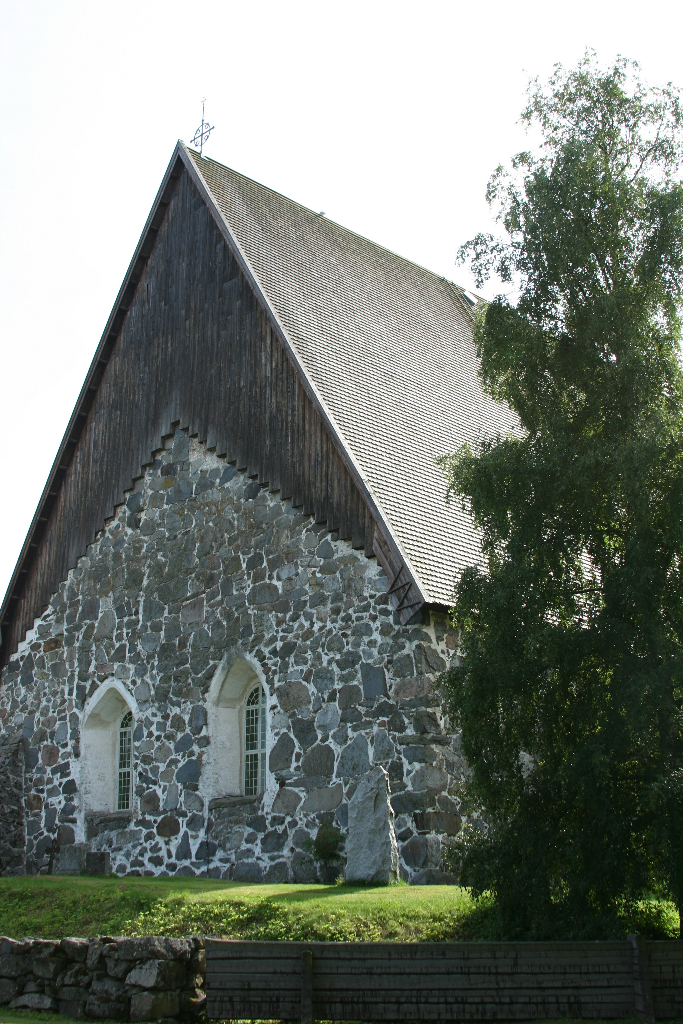 Sastamala old church, Sastamala, Finland. Eastern facade.